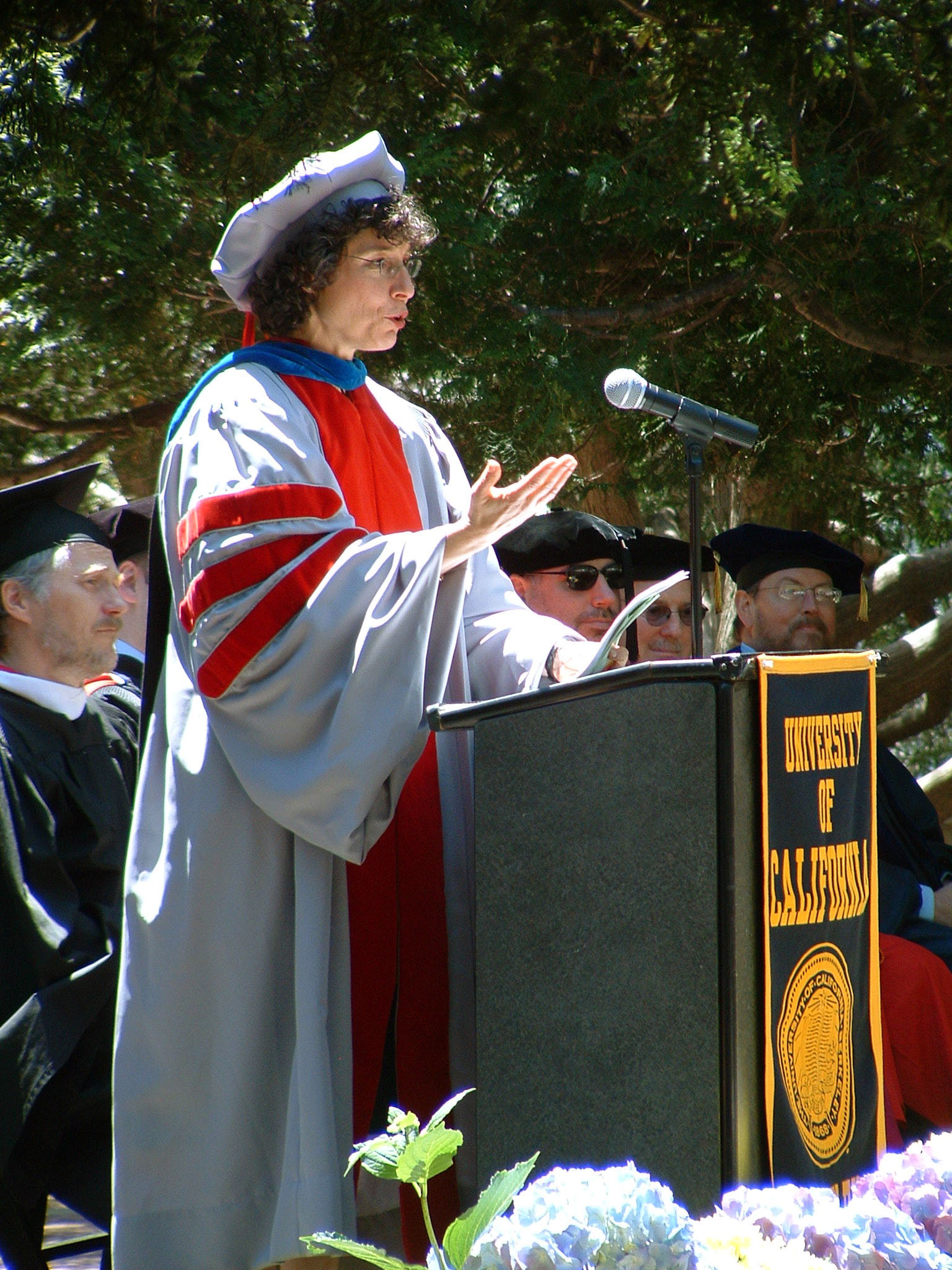 Annalee Saxenian speaking at the UC Berkeley School of Information 2006 commencement.